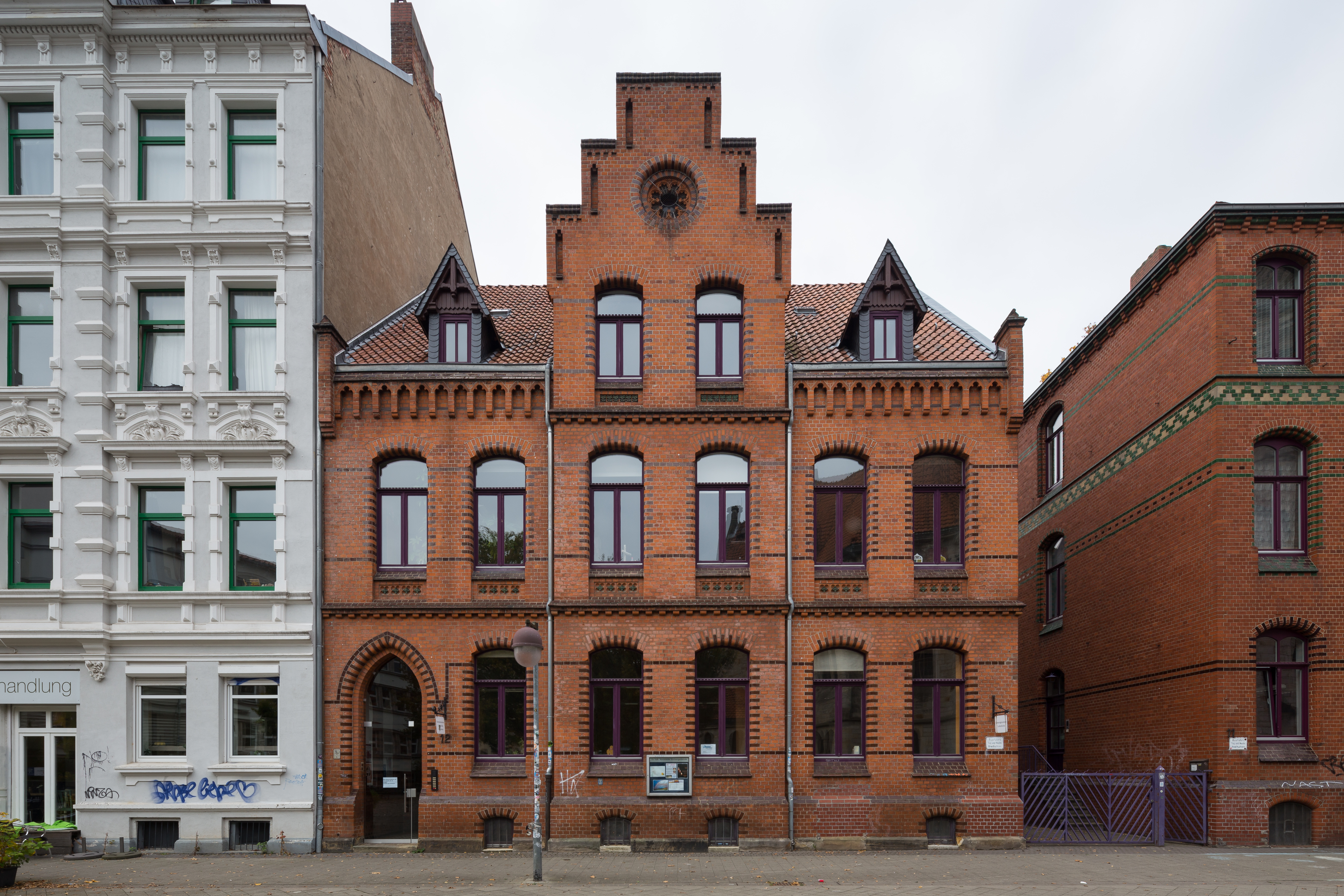 House located at An der Lutherkirche no. 12 in Nordstadt quarter of Hannover, Germany.